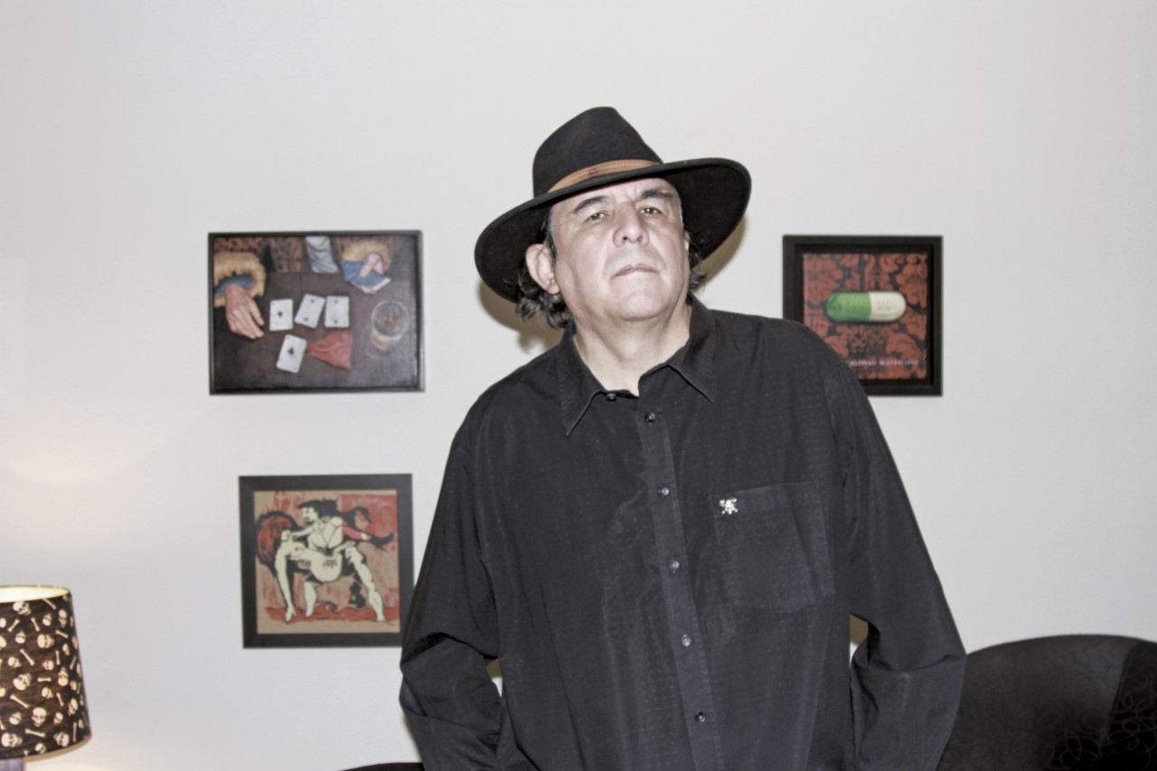 Guillermo Fadanelli 2020